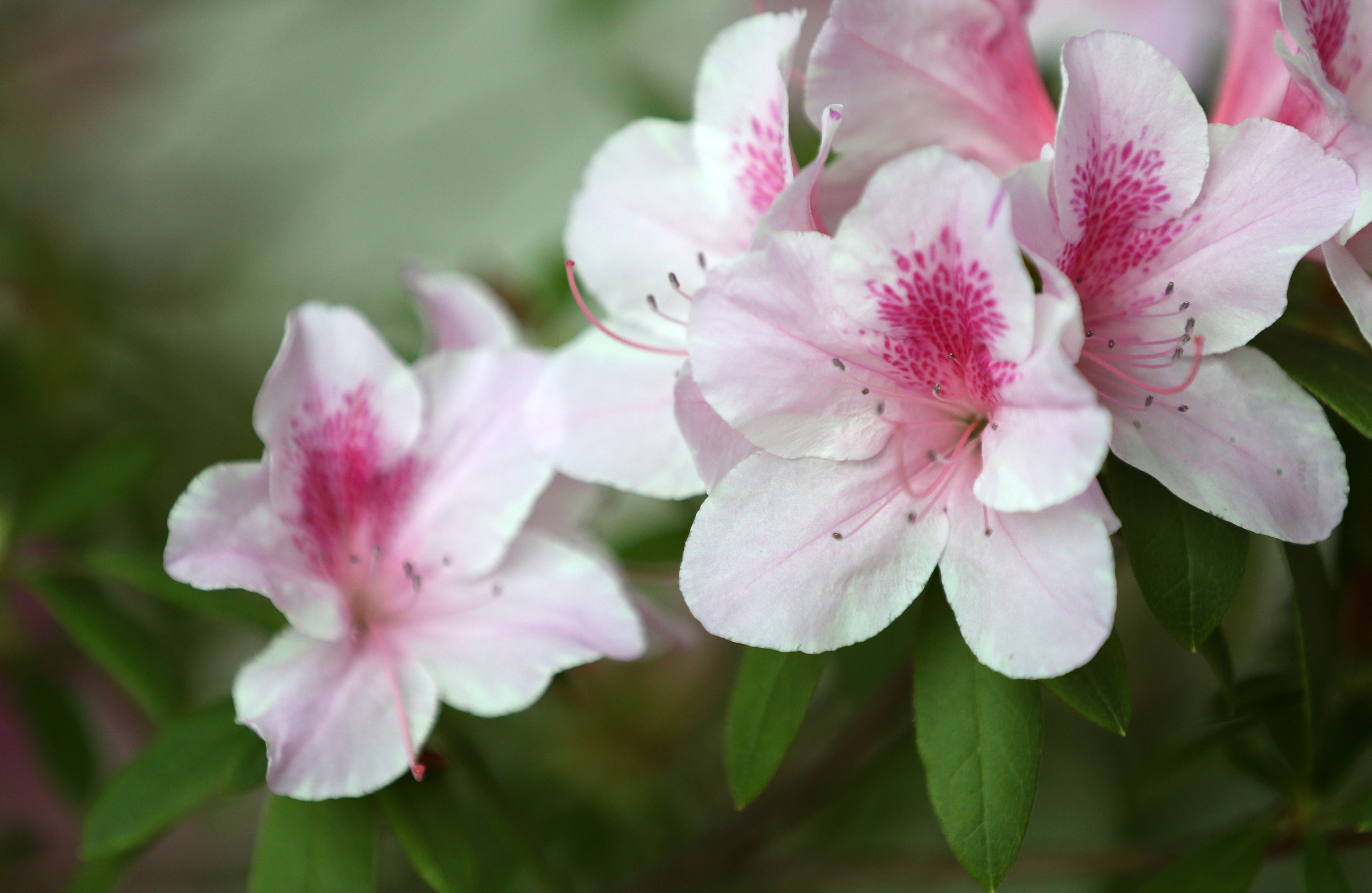 Royal Azalea Pyeongchang-dong, Jongno-gu, Seoul 2013.03.12. Ministry of Culture, Sports and Tourism Korean Culture and Information Service Jeon Han 봄을 맞이하는 철쭉 김종영미술관, 평창동, 종로구 문화체육관광부 해외문화홍보원 코리아넷 전한